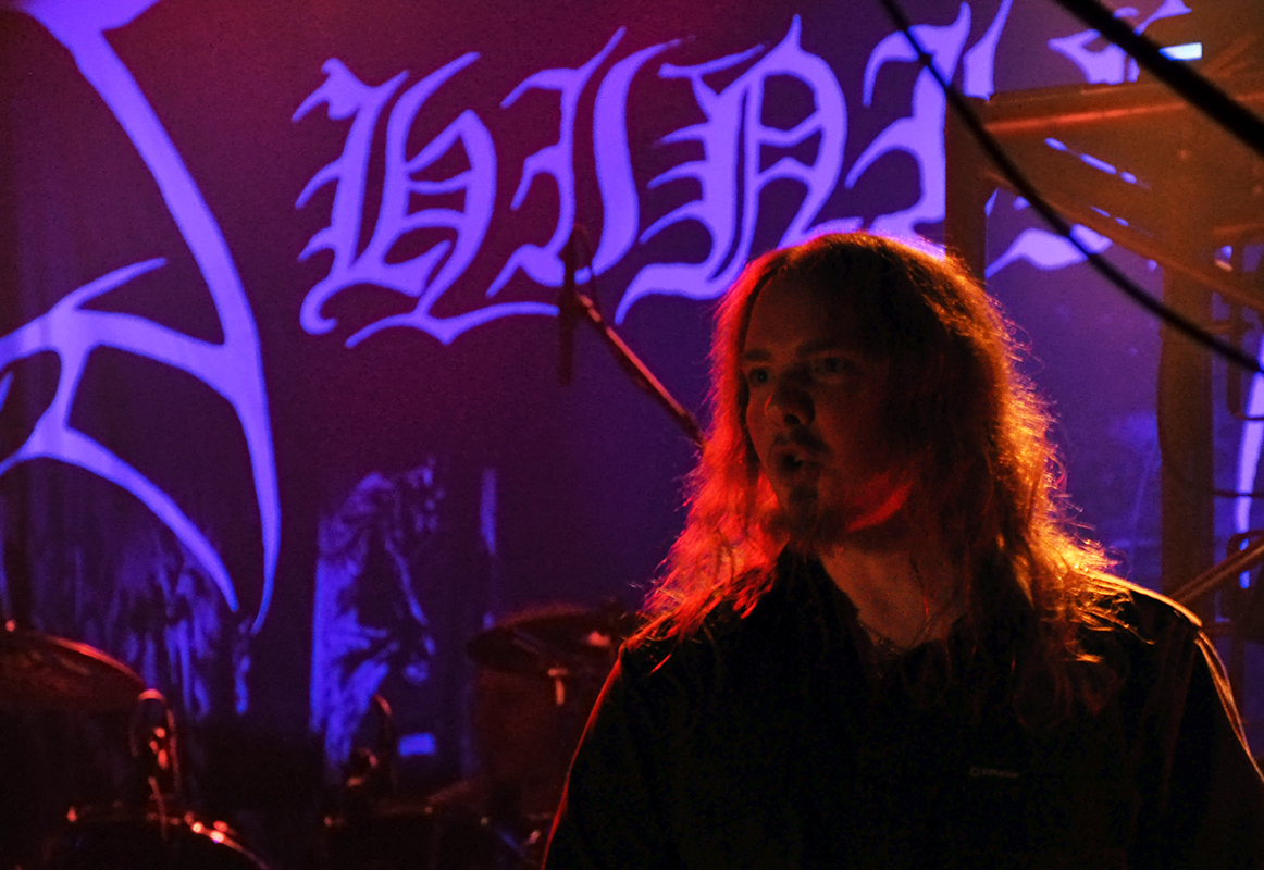 Shining performing at the Kings Of Black Metal in Alsfeld (Germany), on the 21st of April 2012.